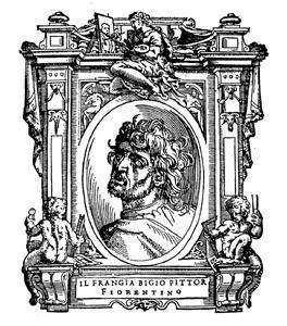 Illustratio from "Le Vite" by Giorgio Vasari, edition of 1568. For the artist portrayed see filename